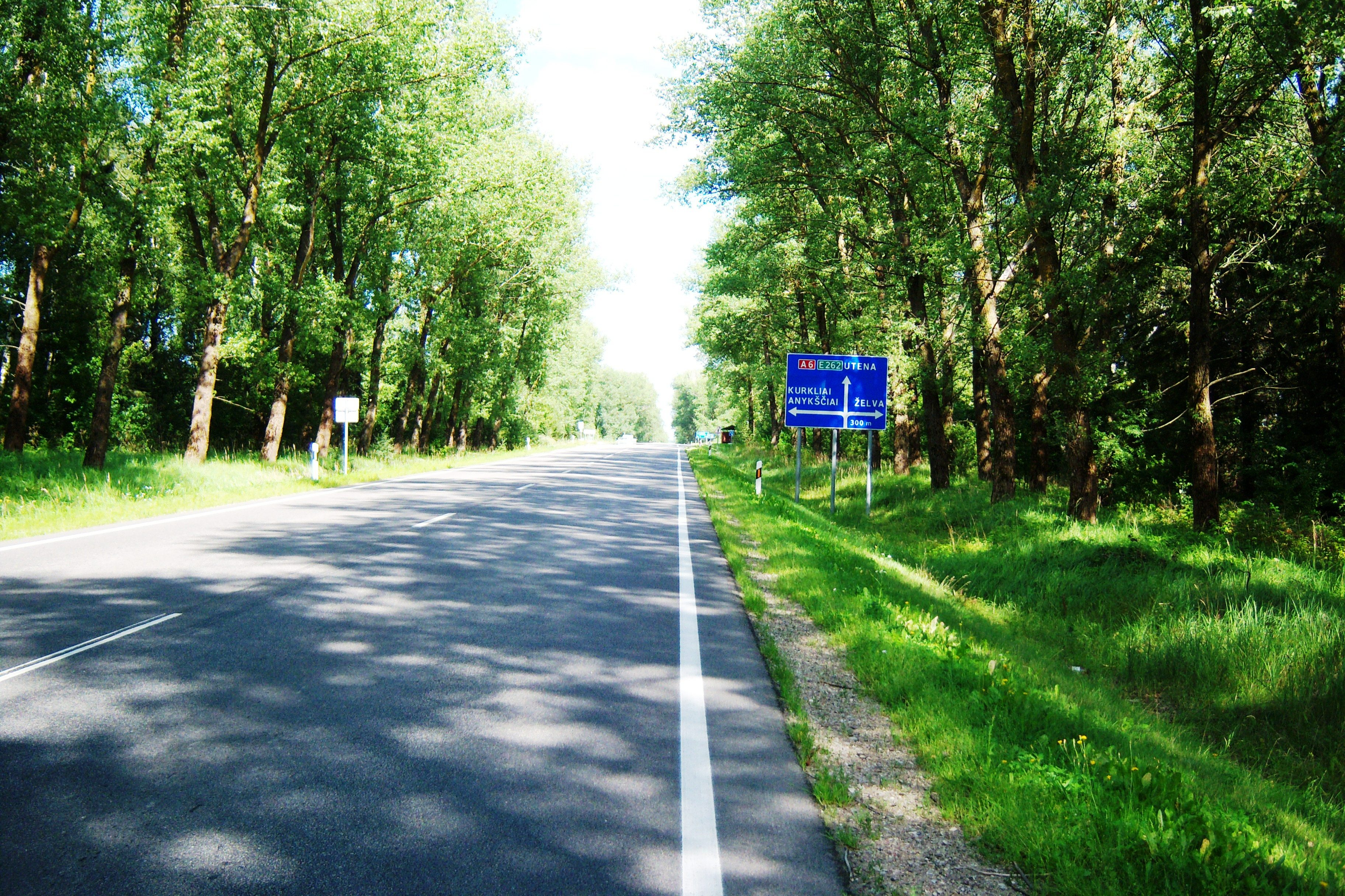 Road A6 (E262), Anykščiai District, Lithuania